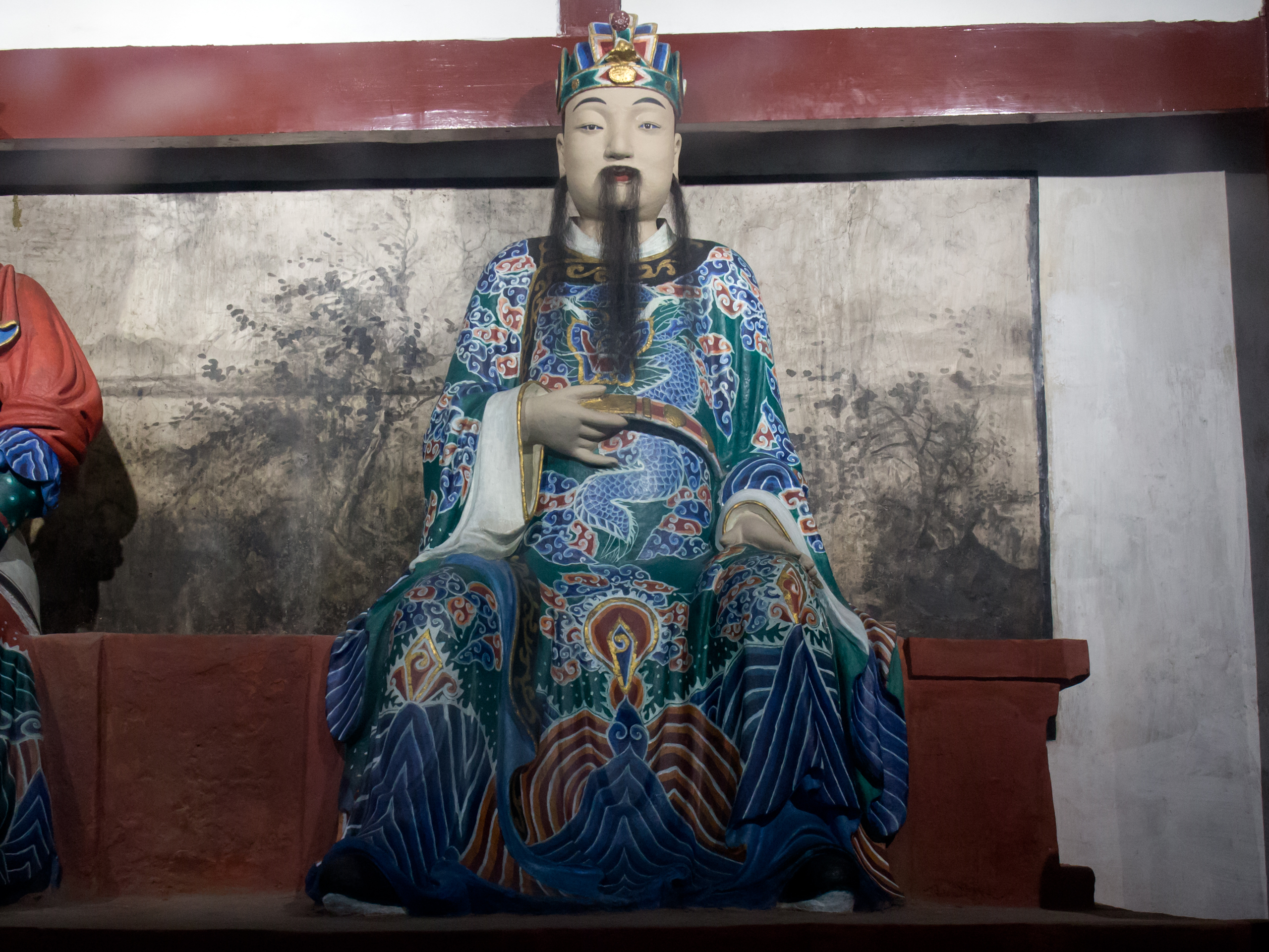 Chen Zhen (陳震)